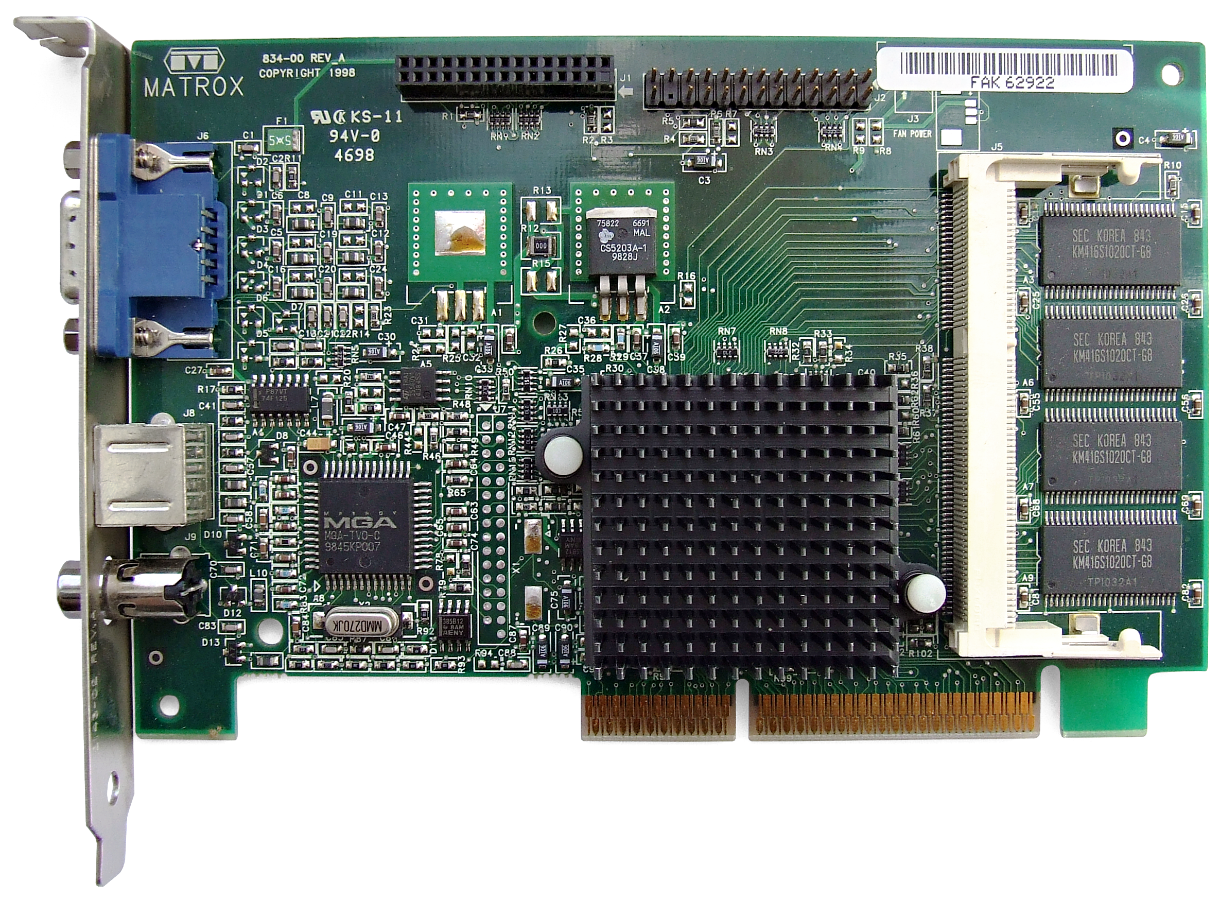 Matrox Mystique G200 (G2+/MYSA/8BI/20) video card, PCB revision 834-00A. It is based on the MGA-G200A graphics processing unit and equipped with 8 MB of SDRAM as well as S-Video and composite TV-out.